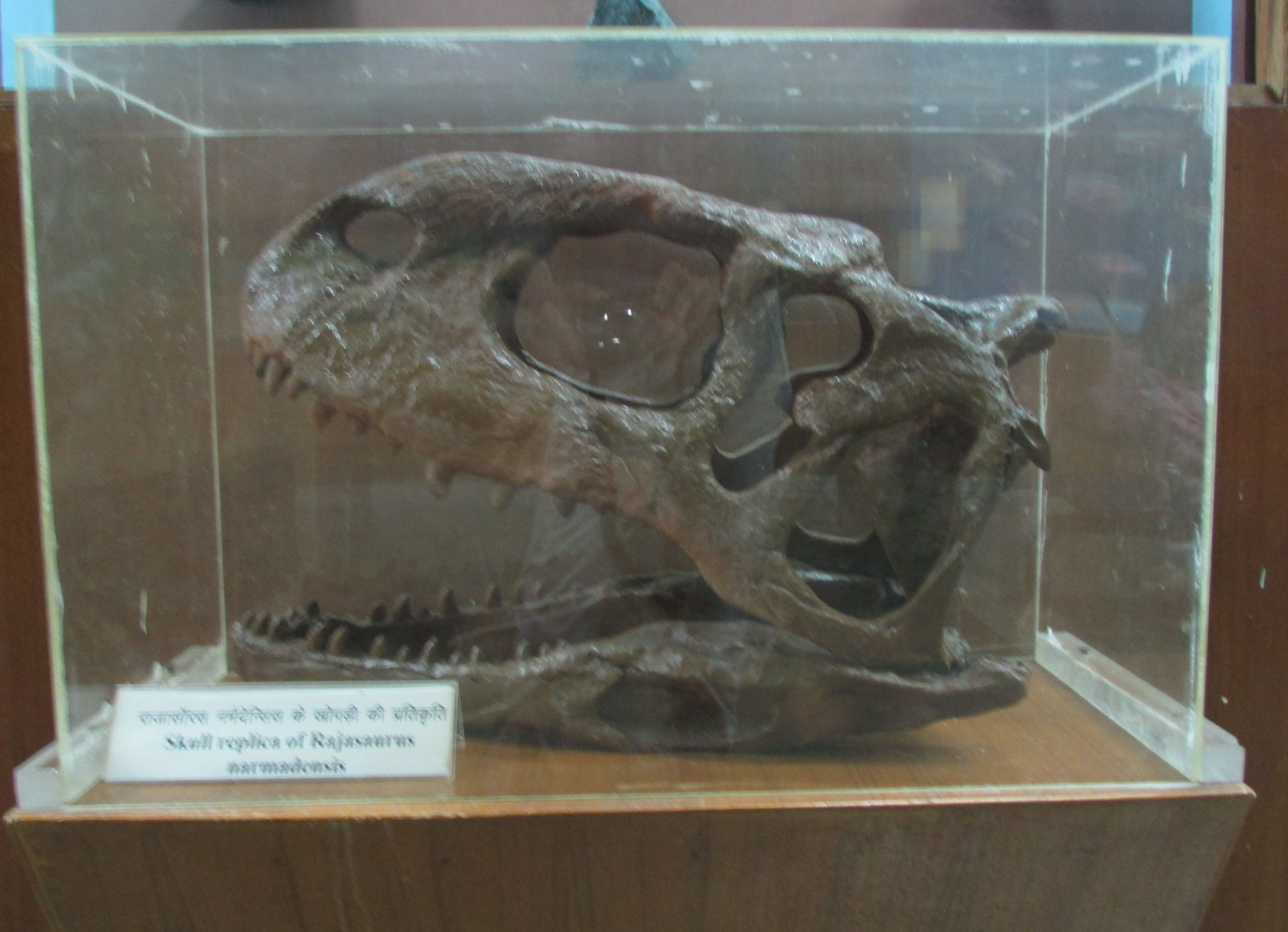 Exhibit of Rajasaurus Narmadensis at Regional Museum of Natural History,Bhopal,India